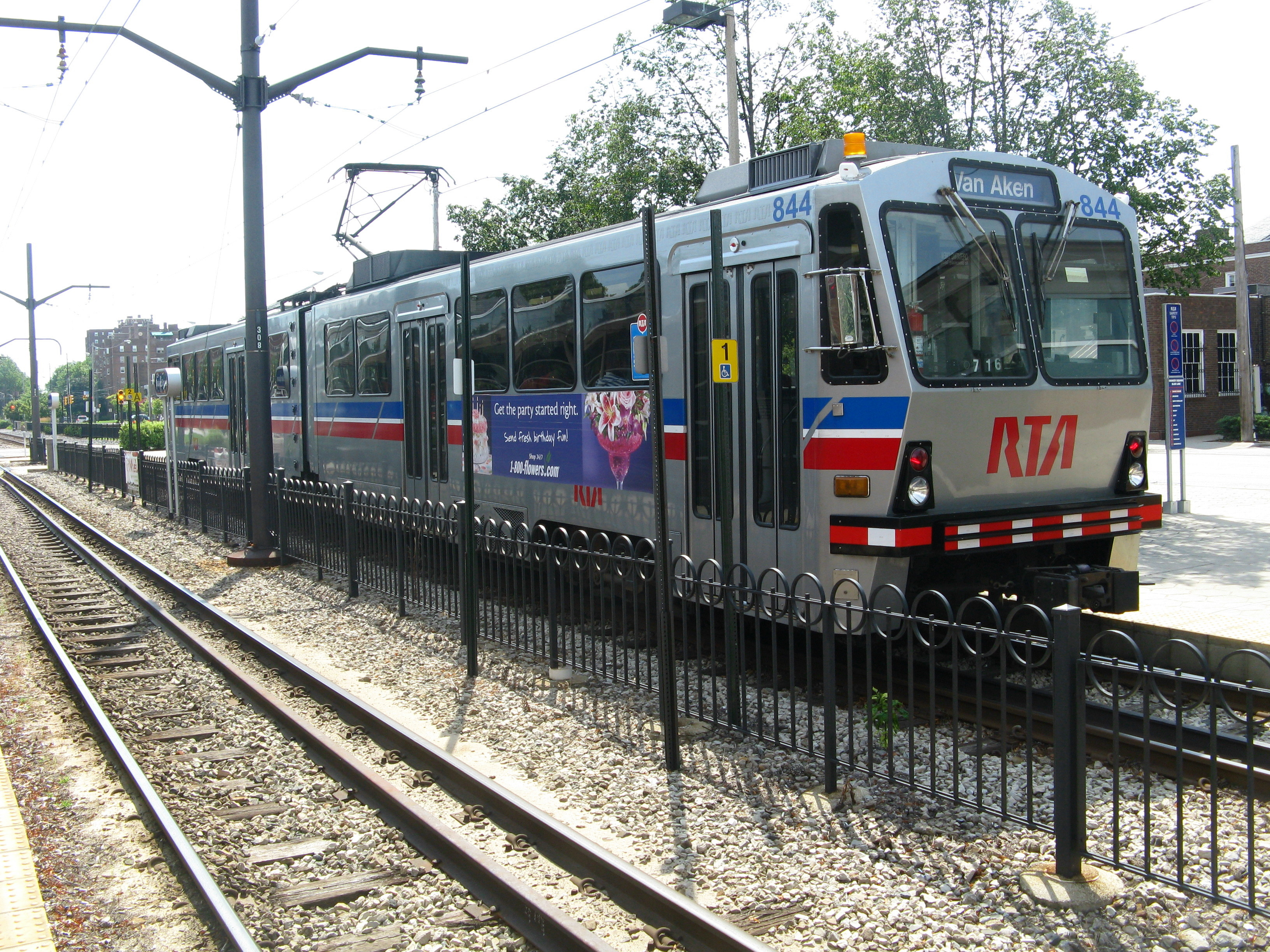 Cleveland RTA light rail car at Shaker Square station. Car 844 was built by Breda.